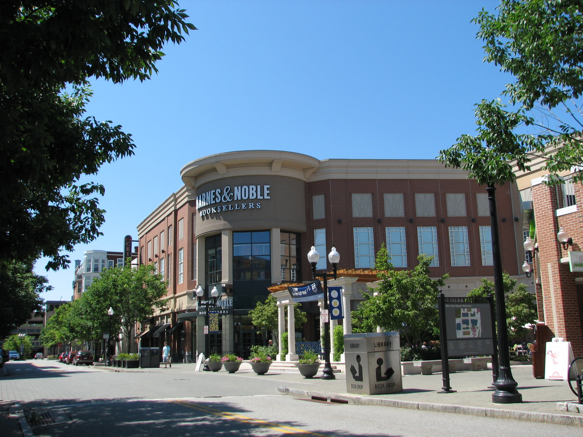 West Hartford Downtown